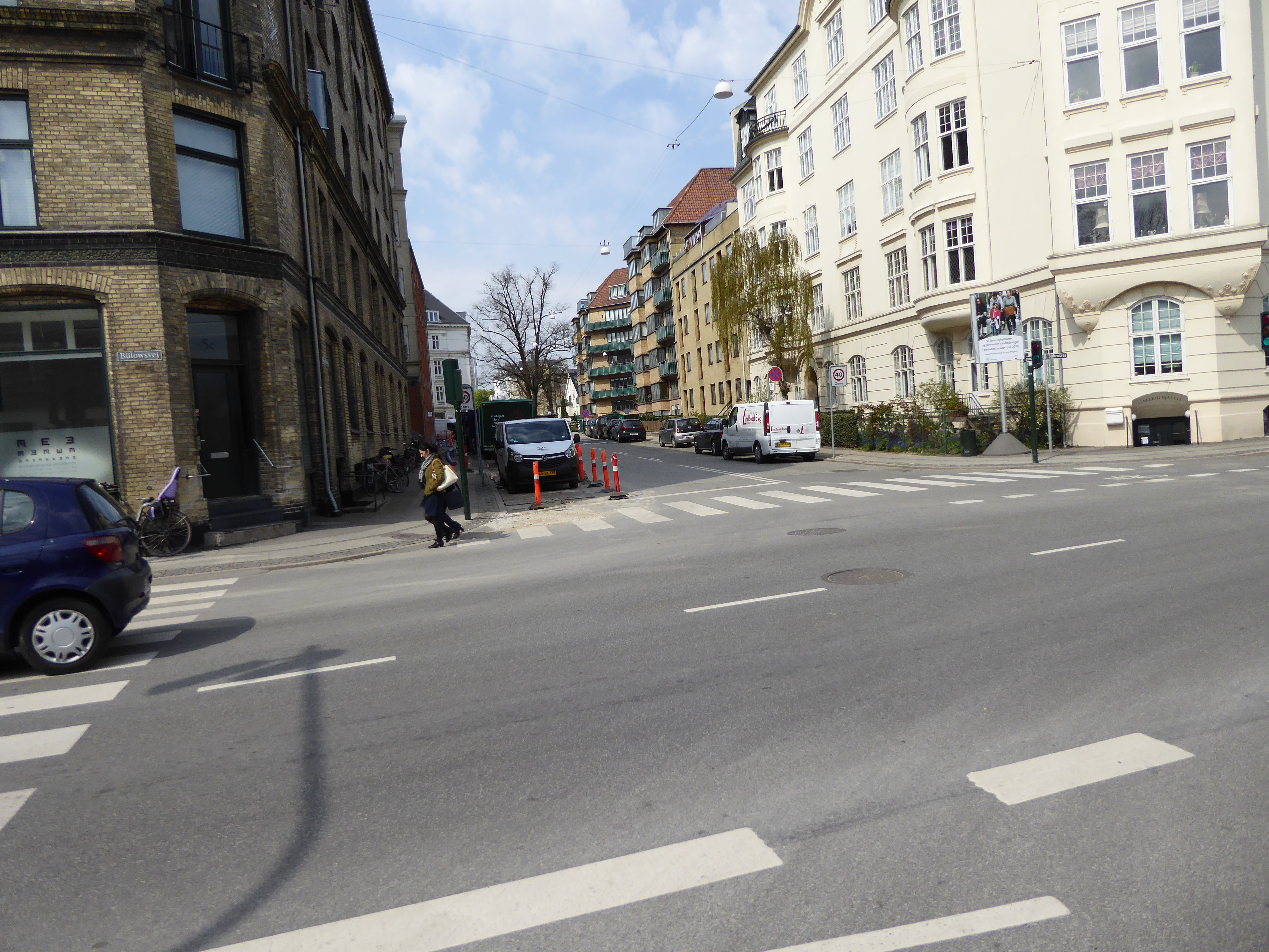 Grundtvigsvej in Frederiksberg, Copenhagen, Denmark